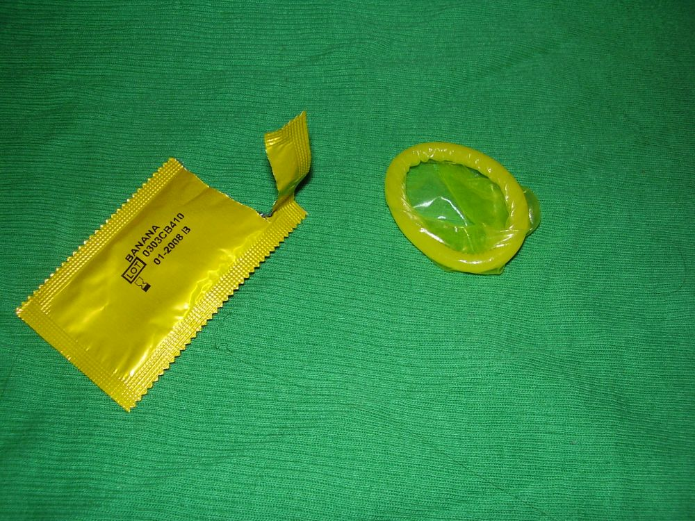 Condom with package